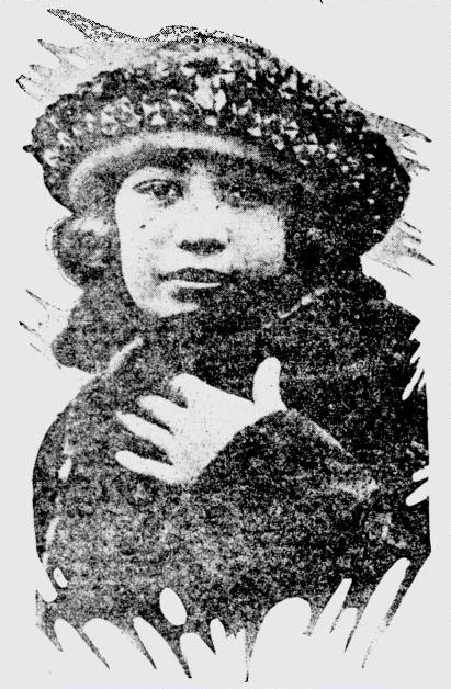 Princess Helen Lydia Kamakaʻeha Liliʻuokalani Kawānanakoa (1905–1969), was the second daughter of Prince David Kawānanakoa and Princess Abigail Campbell Kawānanakoa.